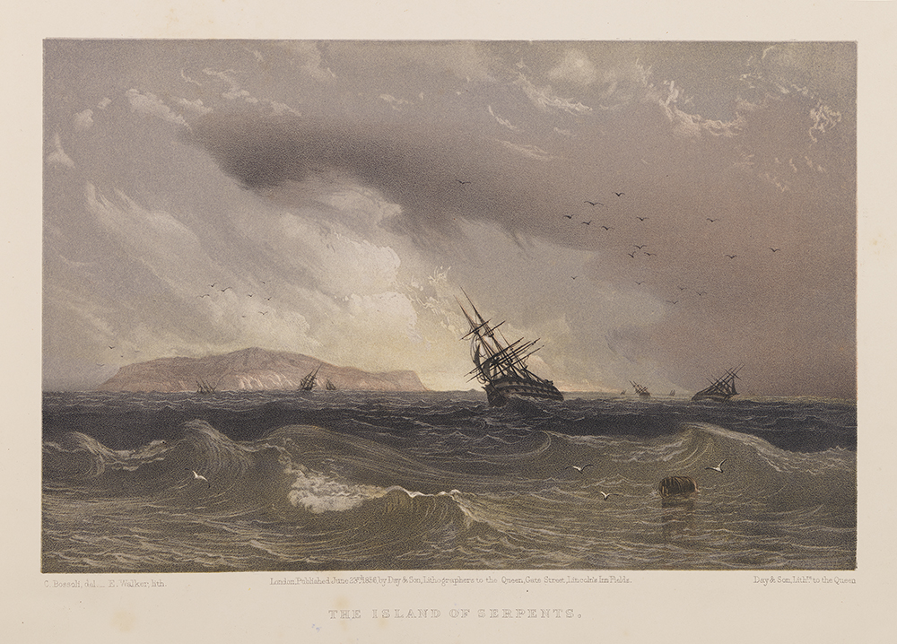 Title: The Island of Serpents. Creator: Bossoli, Carlo, 1815-1884 (delineator); Walker, Edmund, active 1836-1882 (lithographer) Contributors: Day & Son (publisher) Date: June 23, 1856 Part of: beautiful scenery and chief places of interest throughout the Crimea from paintings/ Place: Snake Island, Black Sea Physical Description: 1 print: lithograph, color, part of 1 volume (65 prints); 20 x 28 cm on 56 x 40 cm File: folio_3_ne2524_b6_29b_opt.jpg Rights: Please cite DeGolyer Library, Southern Methodist University when using this file. A high-resolution version of this file may be obtained for a fee. For details see the web page. For other information, . For more information and to view the image in high resolution, View the